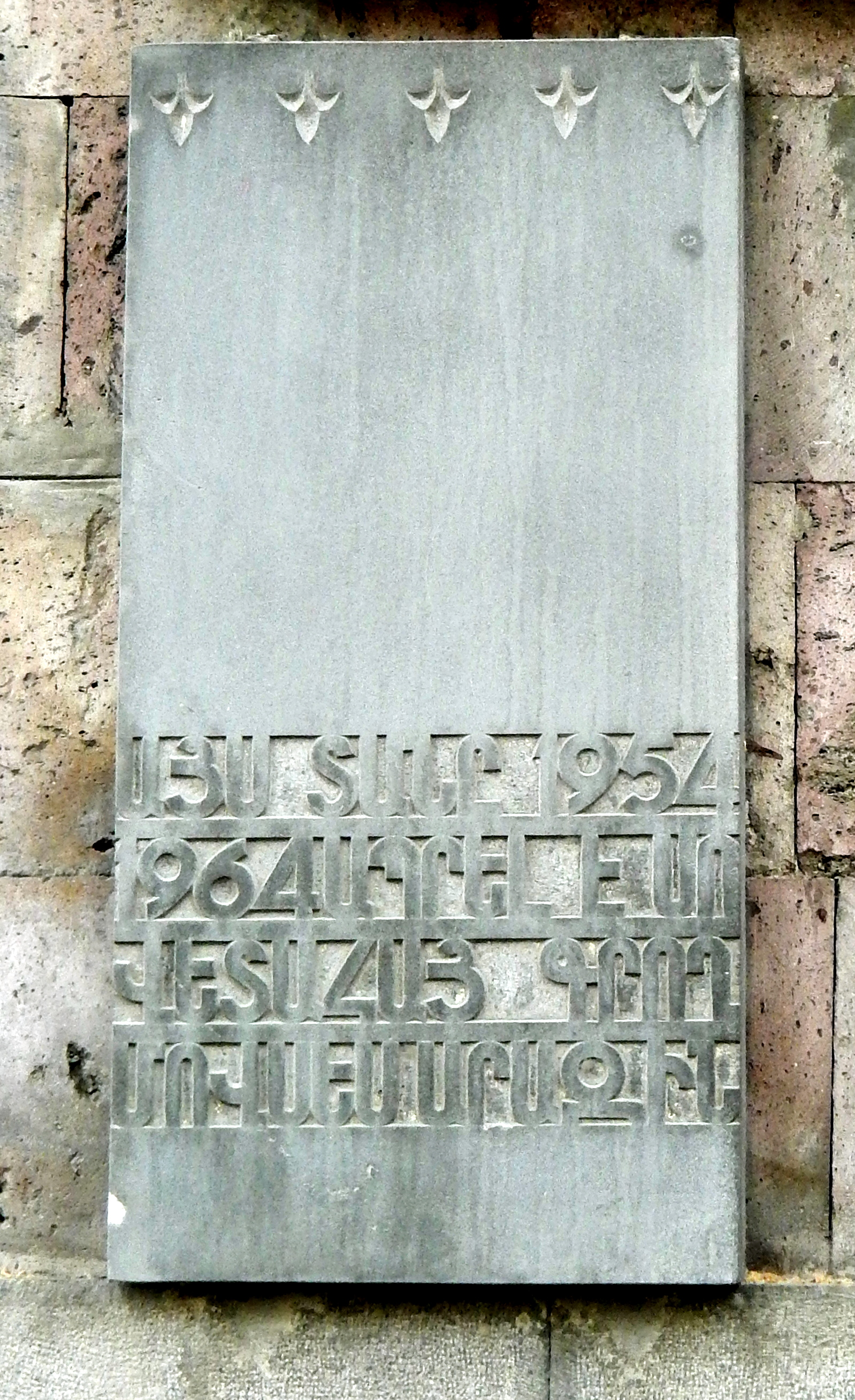 Movses Arazi's plaque